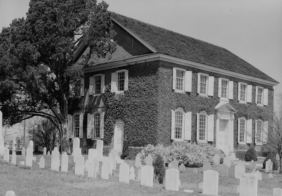 Old Drawyers Presbyterian Church, Route 13, Odessa vicinity (New Castle County, Delaware) Object location39° 28′ 01″ N, 75° 39′ 15″ W